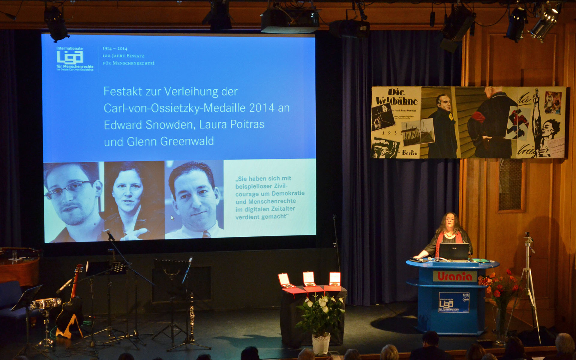 Ceremony for the conferment of the Carl von Ossietzky Medall 2014 to Edward Snowden, Laura Poitras and Glenn Greenwald. Opening Speech by ILMR President Fanny-Michaela Reisin.